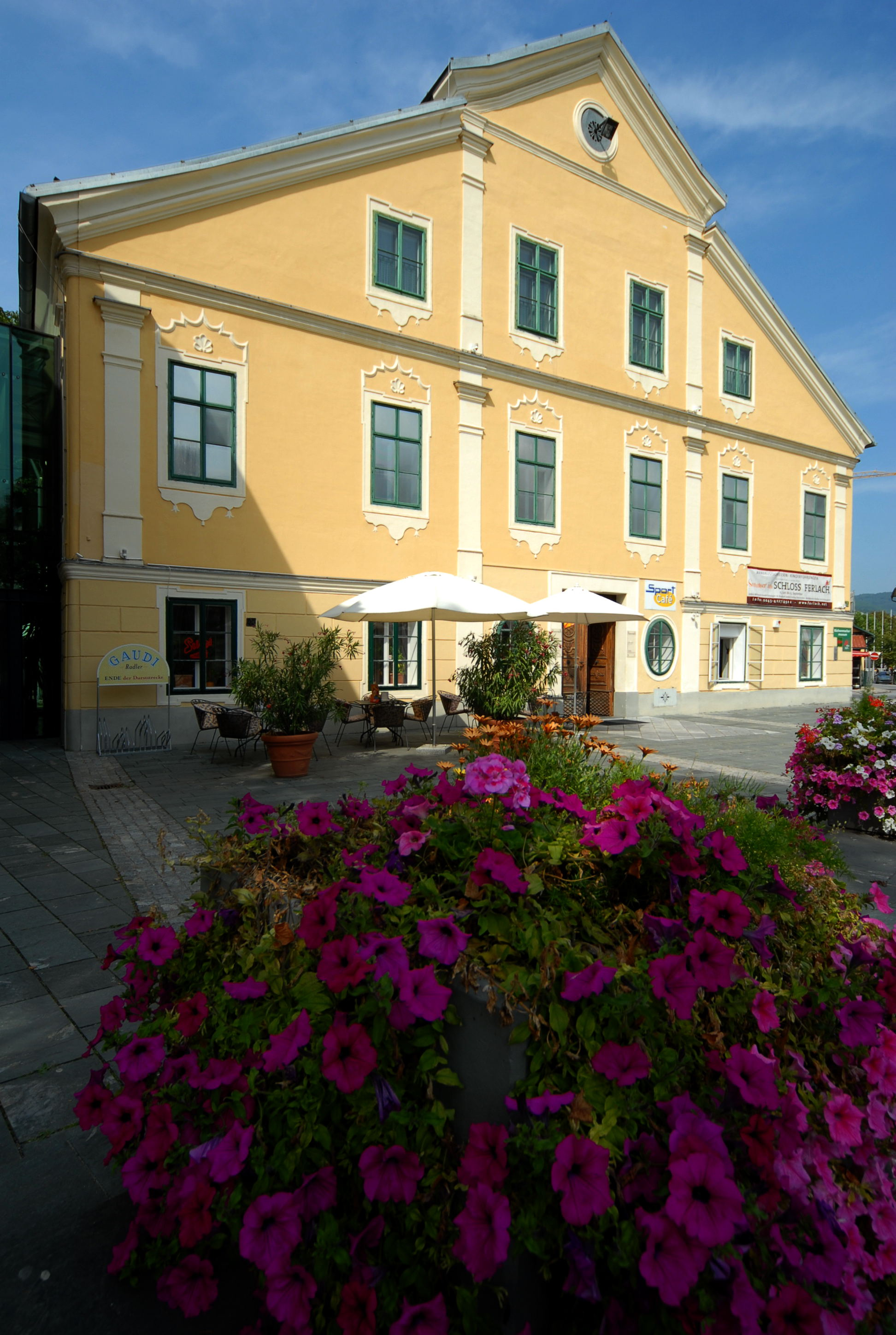 Castle on Sponheimer Square #1, city of Ferlach, district Klagenfurt Land, Carinthia, Austria